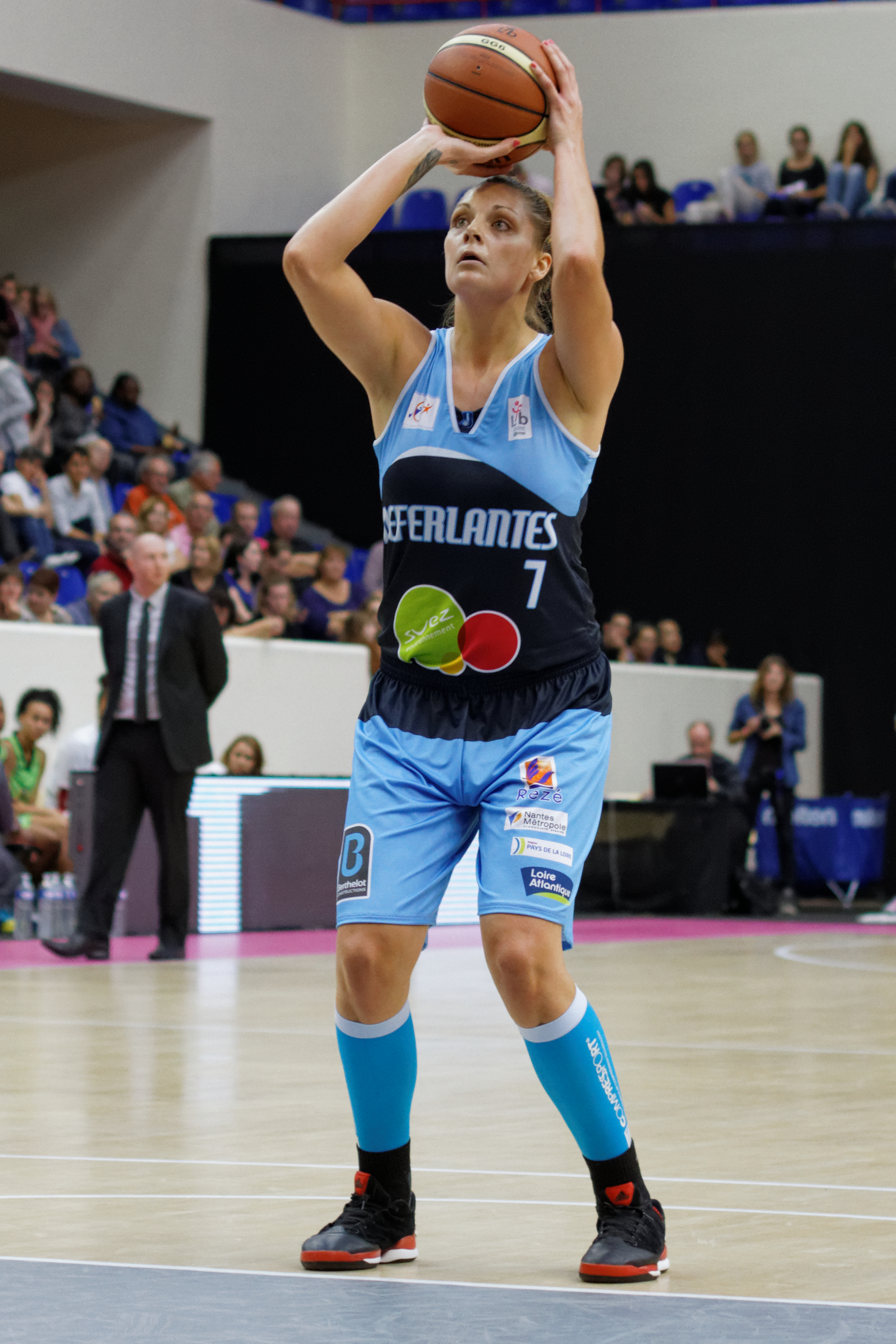 Open LFB, Hainaut Basket-Nantes Rezé, October 6th, 2013.